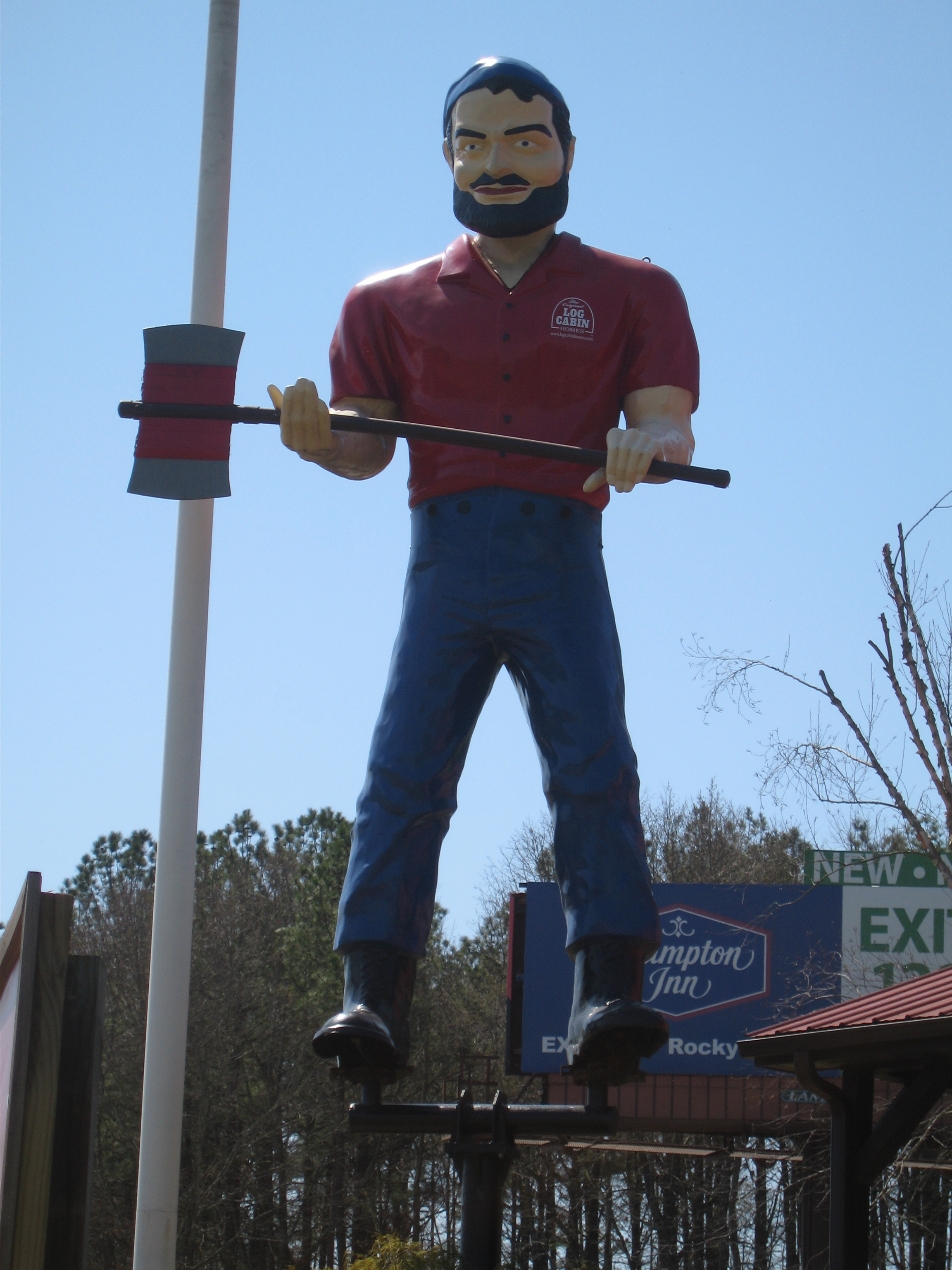 This muffler man is called Bunyan Muffler Man, named after Paul Bunyan. It is located in Rocky Mount, North Carolina. It is on the west side of I-95 near Exit 145 Gold Rock and is visible from the highway. It was formerly located at the Stan the Tire Man facility in Salem, Illinois, United States and was purportedly moved to the new location in Rocky Mount in 2007.